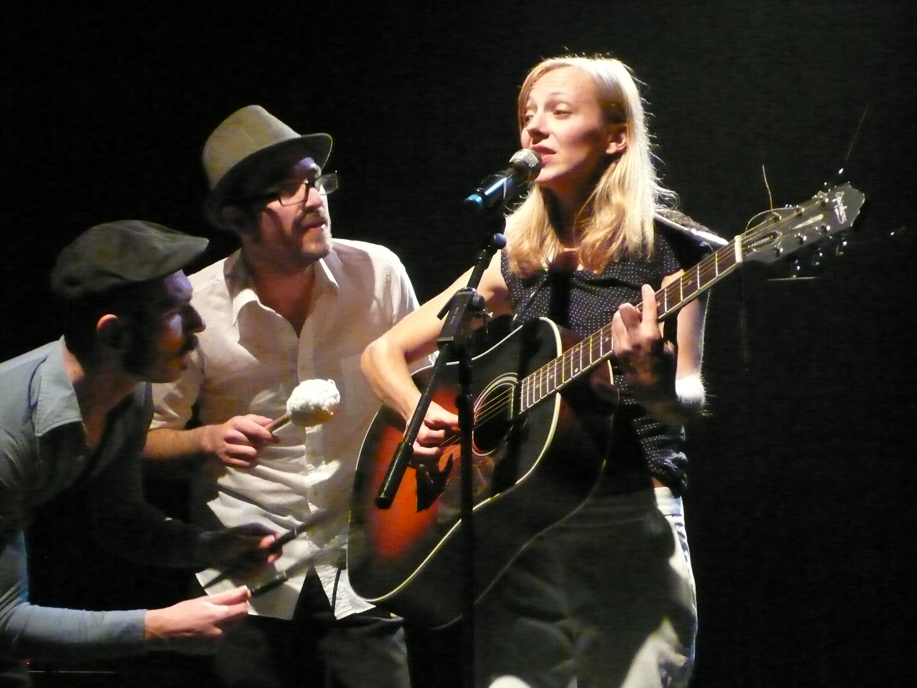 Lonely Drifter Karen : show at Annemasse